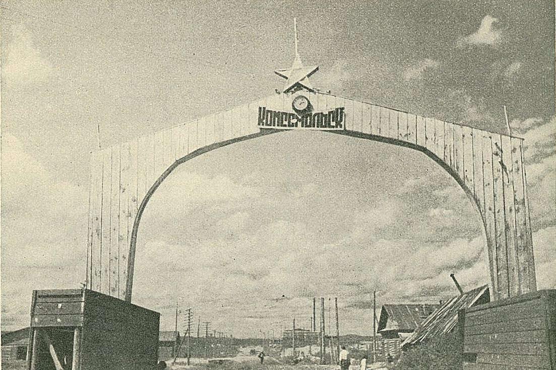 The beginnings of the Komsomolsk-on-Amur.